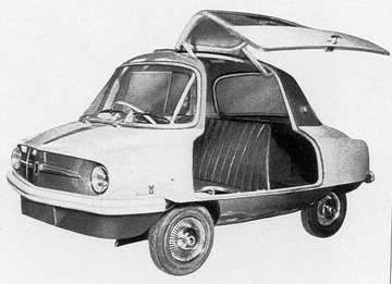 1957 Meadows Frisky at the Geneva Motor Show. Coachwork designed by Giovanni Michelotti and built by Vignale of Turin